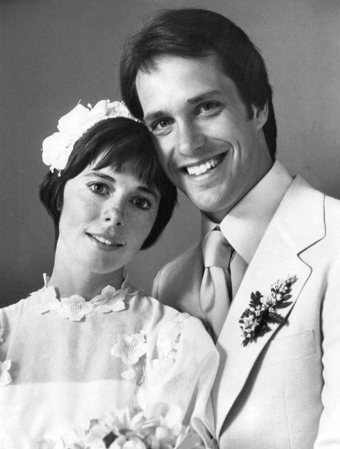 Photo of Susan Blanchard (Mary Kennicott) and Charles Frank (Jeff Martin) in a wedding scene from the daytime drama All My Children.